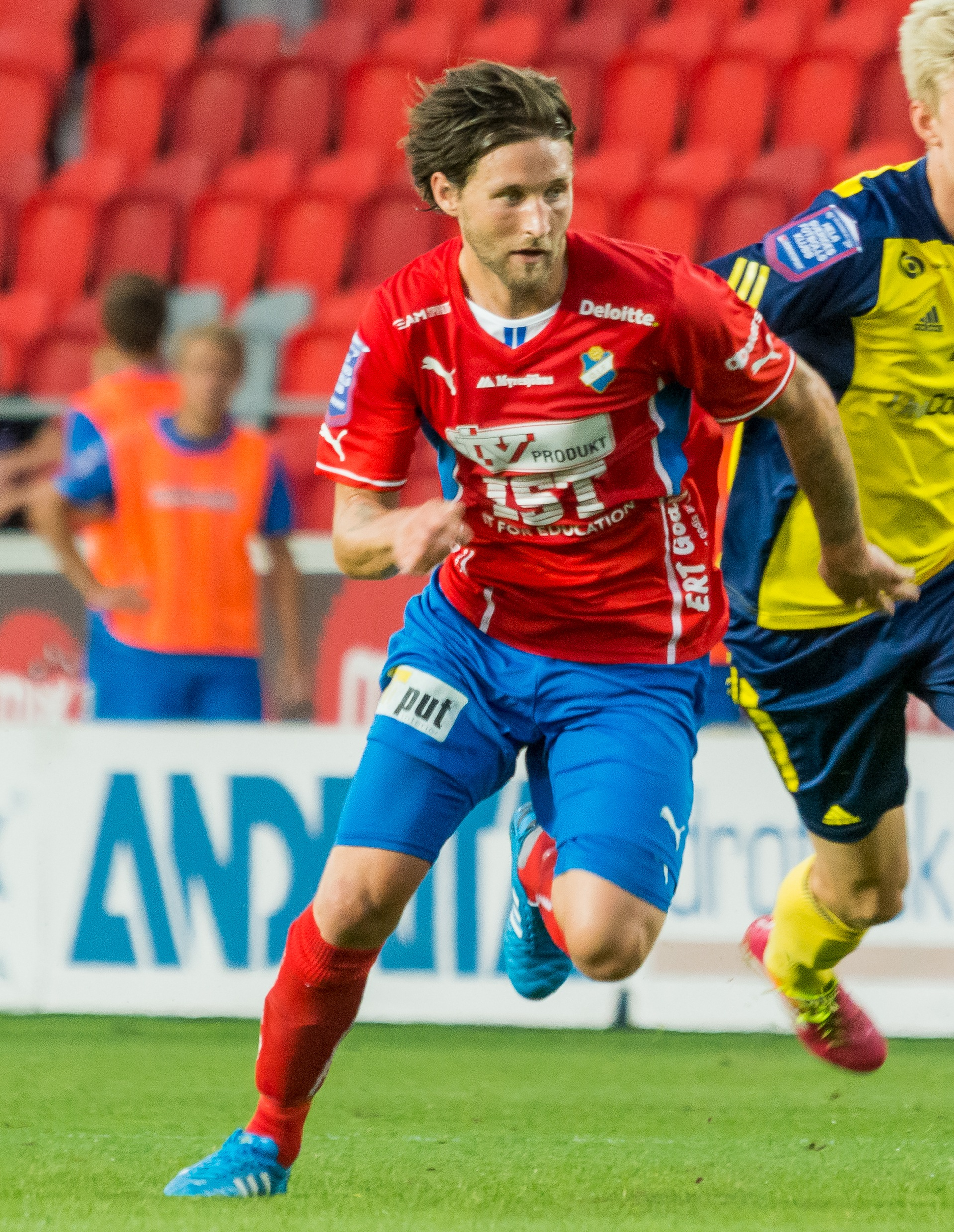 Swedish defender Tibor Joza in his first game on loan to Östers IF from Falkenbergs FF on 25 July 2014. Joza was voted Player of the Match in Östers 2-0 victory.